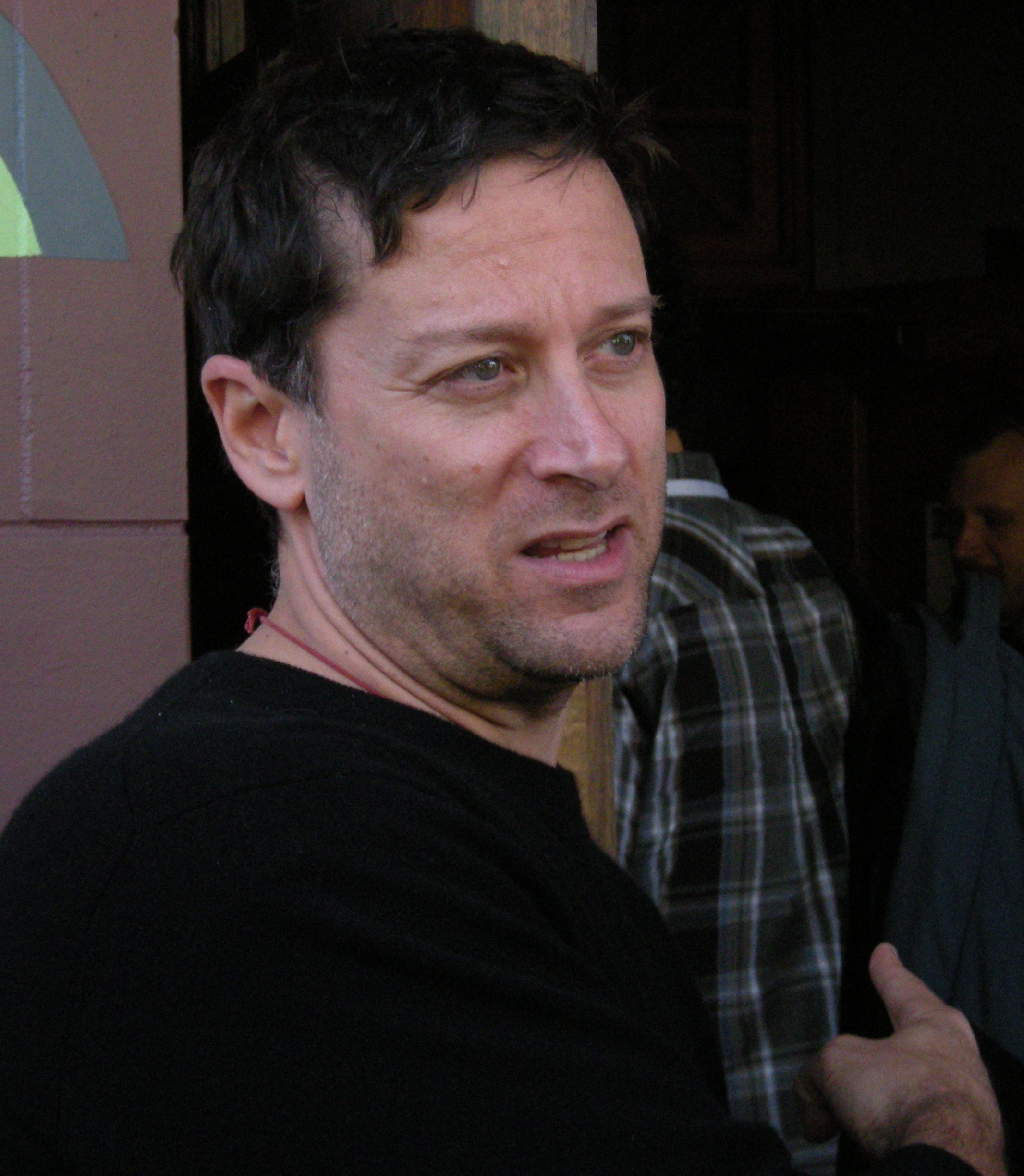 Internet entrepreneur, artist, and social visionary Josh Harris after a showing of Ondi Timoner's documentary about Harris, We Live In Public, 2009 Seattle International Film Festival.